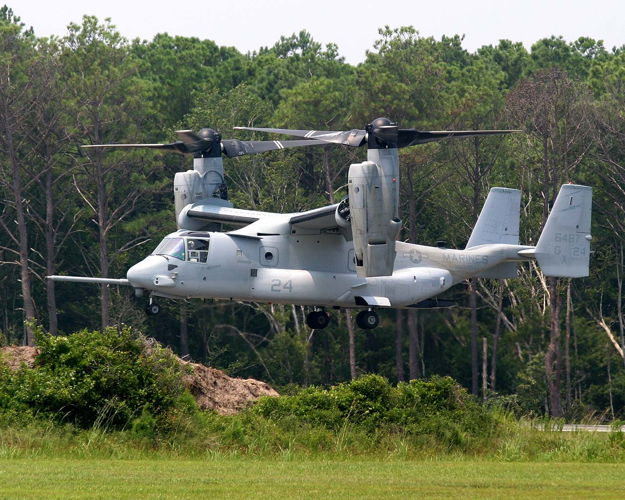 A Marine V-22 Osprey lands at First Flight Airport at Kitty Hawk, North Carolina.